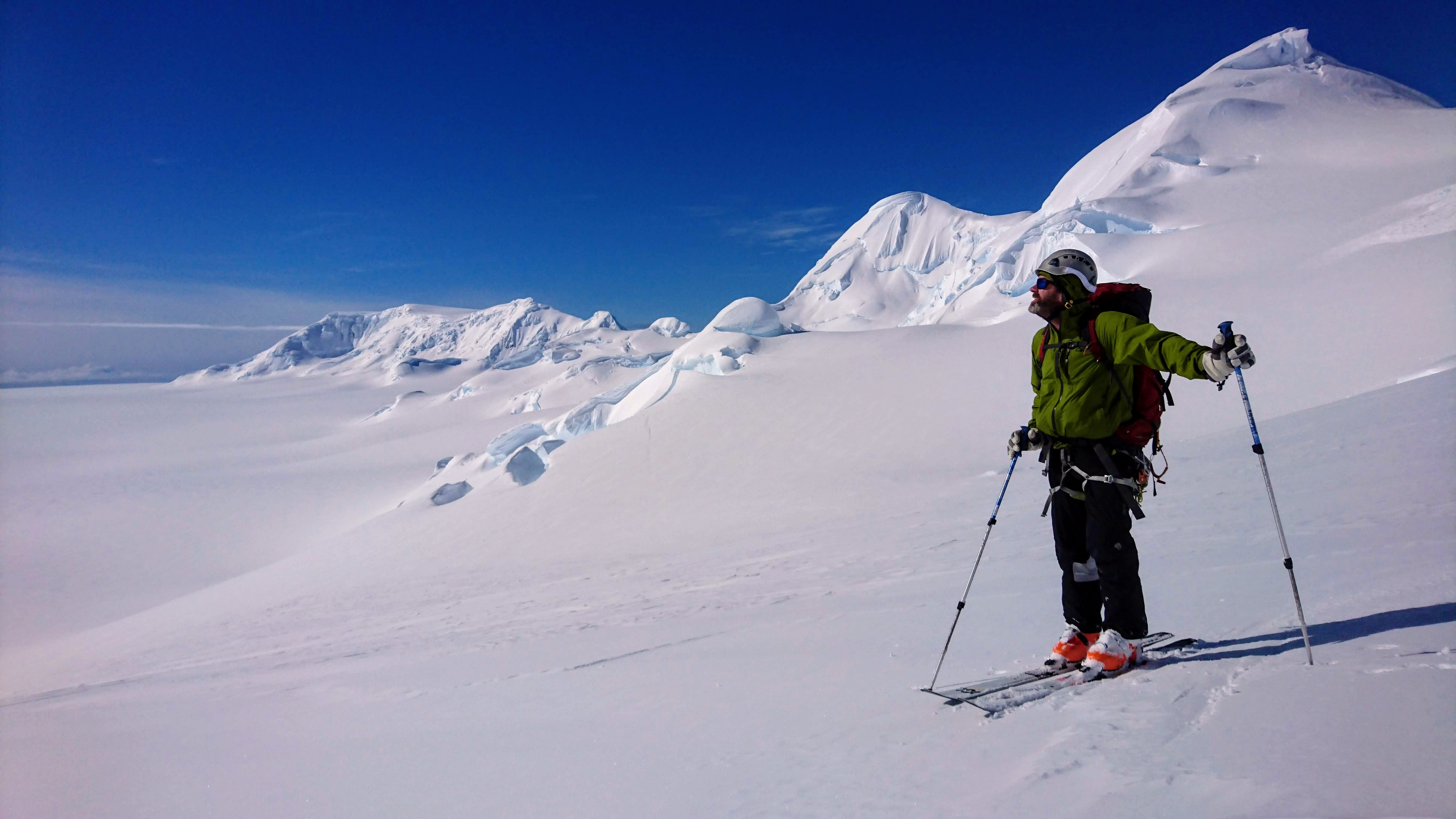 A mountaineer skis down the North face of Mt Achilles after the first ascent in February 2019